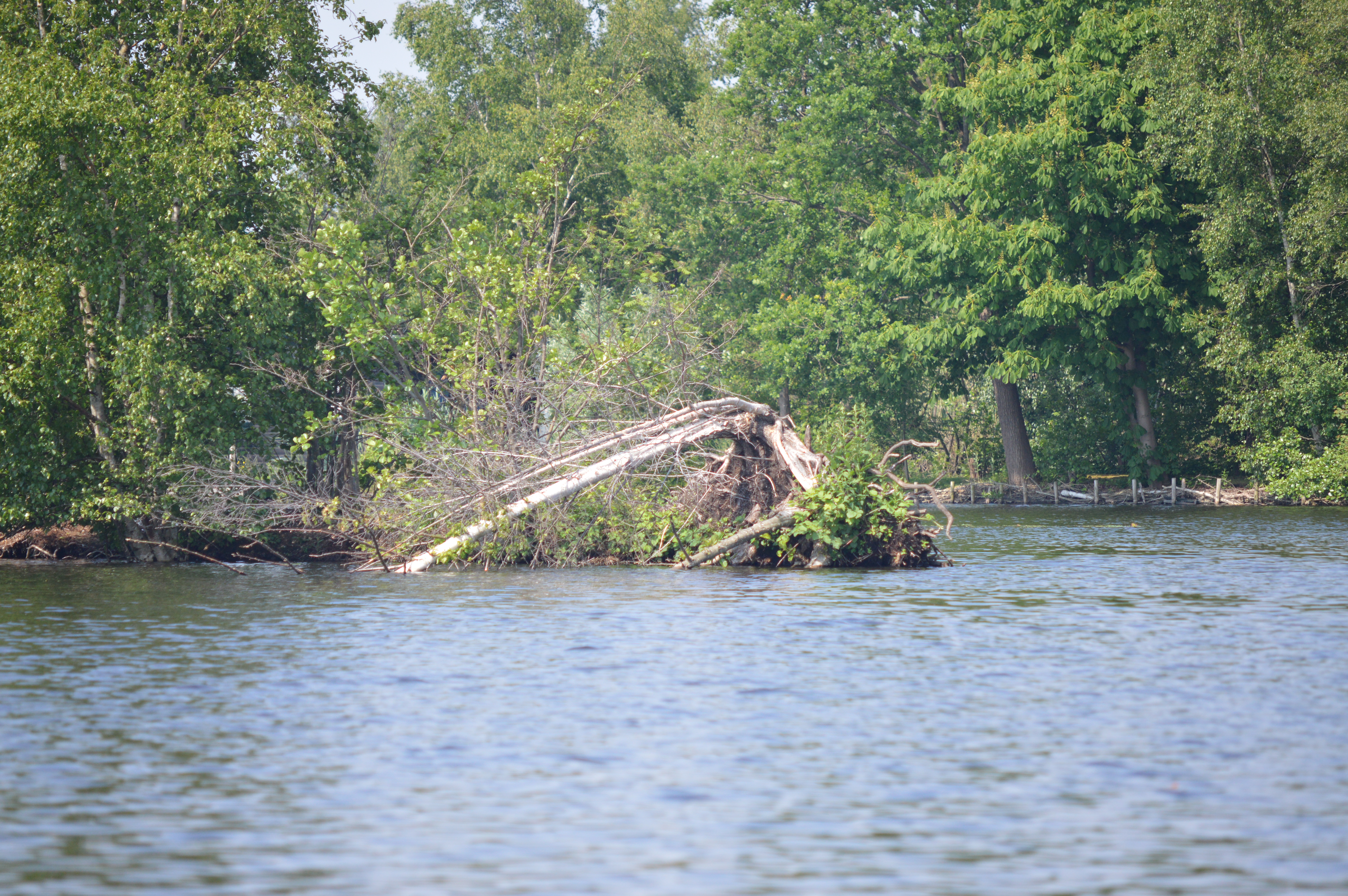 If long trees aren’t cut down, wind will blow them over into the river, taking much of soil with them.